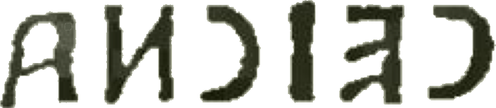 CEICINA in etruscan alphabet etrusco (retrograde) extracted from file:Storia degli antichi popoli italiani - Vol. I.djvu, pag 201